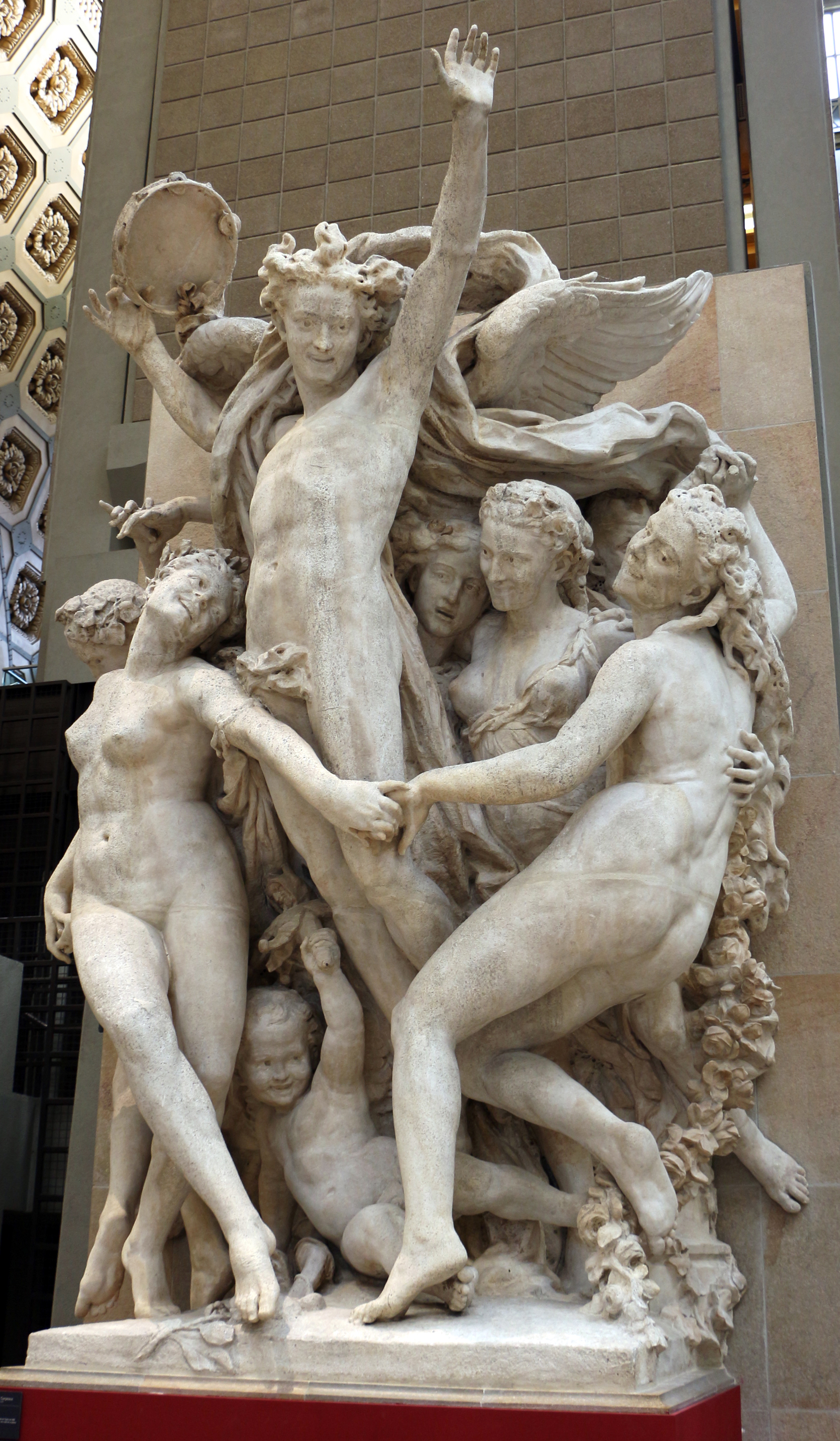 Sculptures by Jean-Baptiste Carpeaux in the Musée d'Orsay